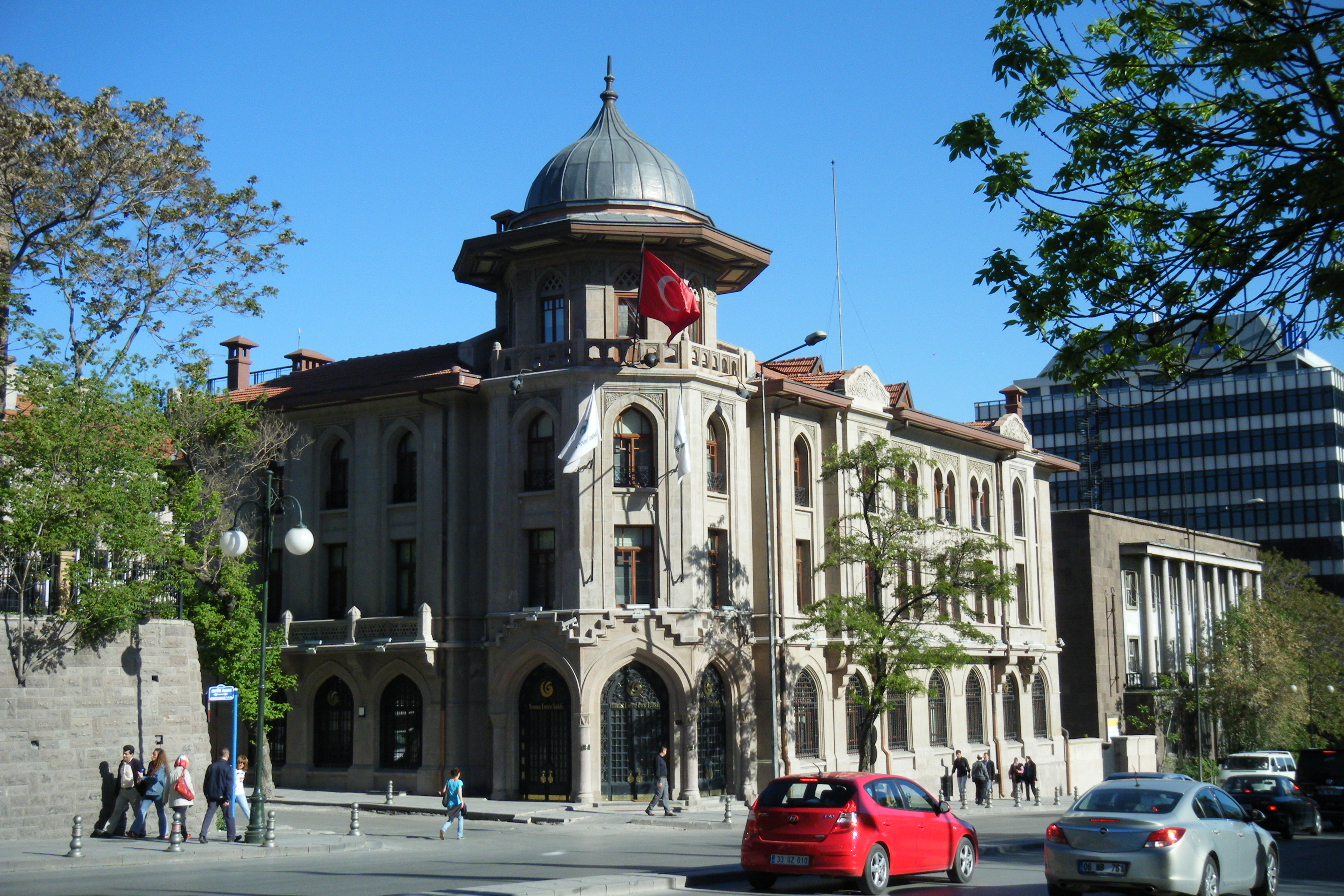 Yunus Emre Institut in Ankara (Ulus)